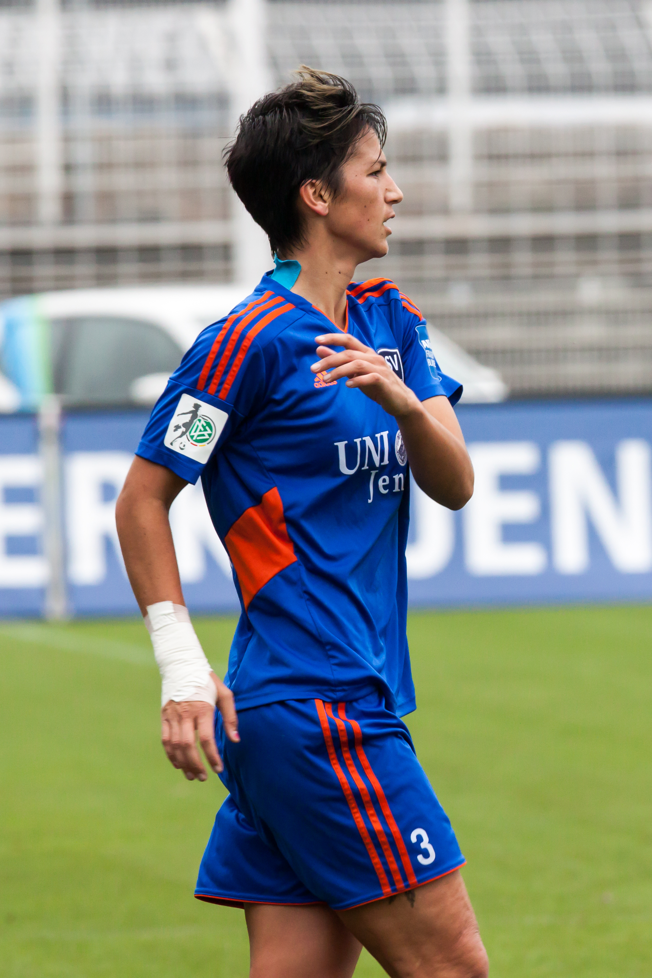 German Women Bundesliga soccer game: FF USV Jena vs. TSG 1899 Hoffenheim, 2014-10-11, at Ernst-Abbe-Sportfeld Jena.